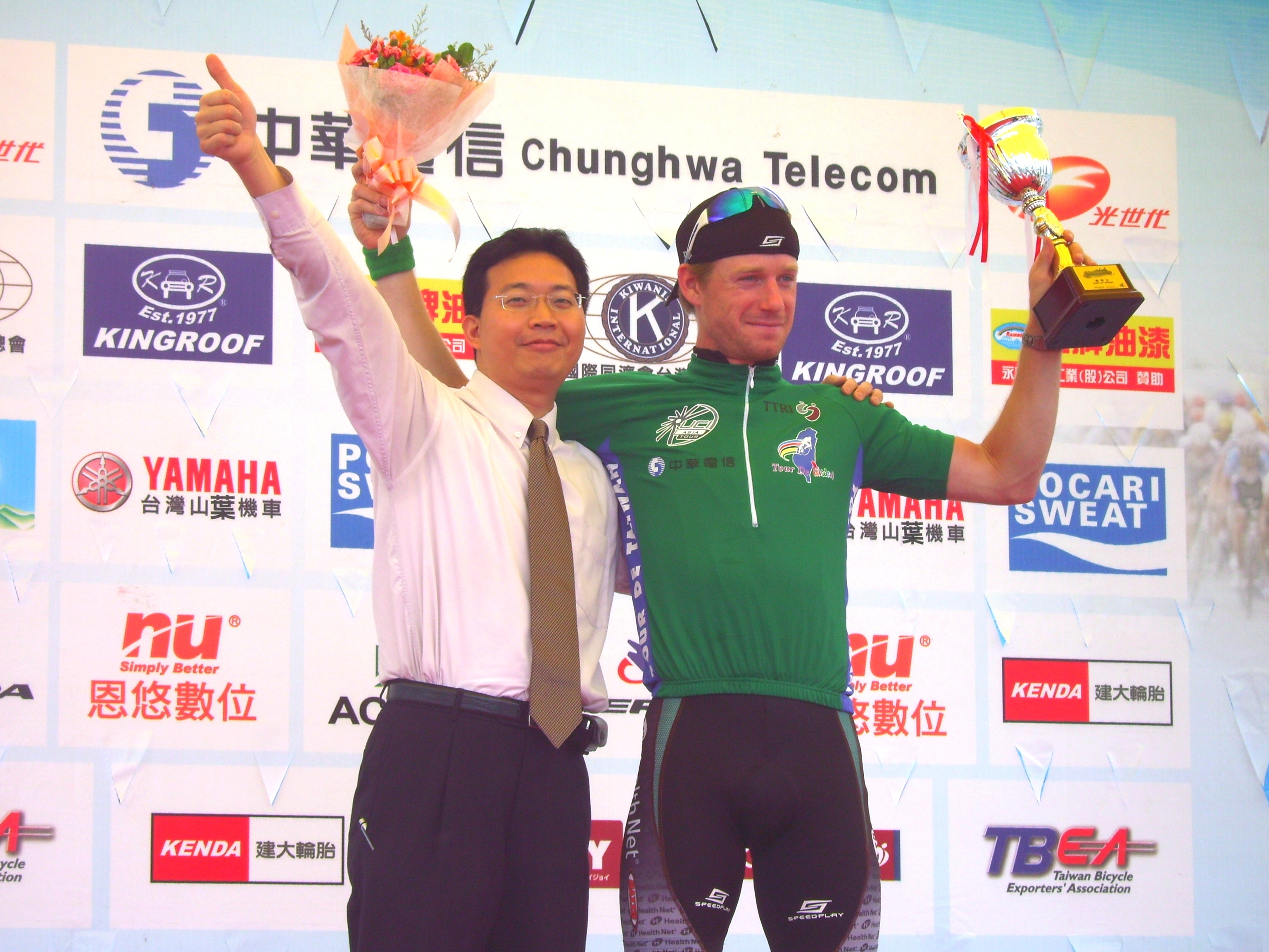 Tour de Taiwan 2007: Maxxis Team cyclist Milne Shawn (right) won the Sprint Champion (Green Jersey) and Tour Champion (Yellow Jersey) in this tour competition.